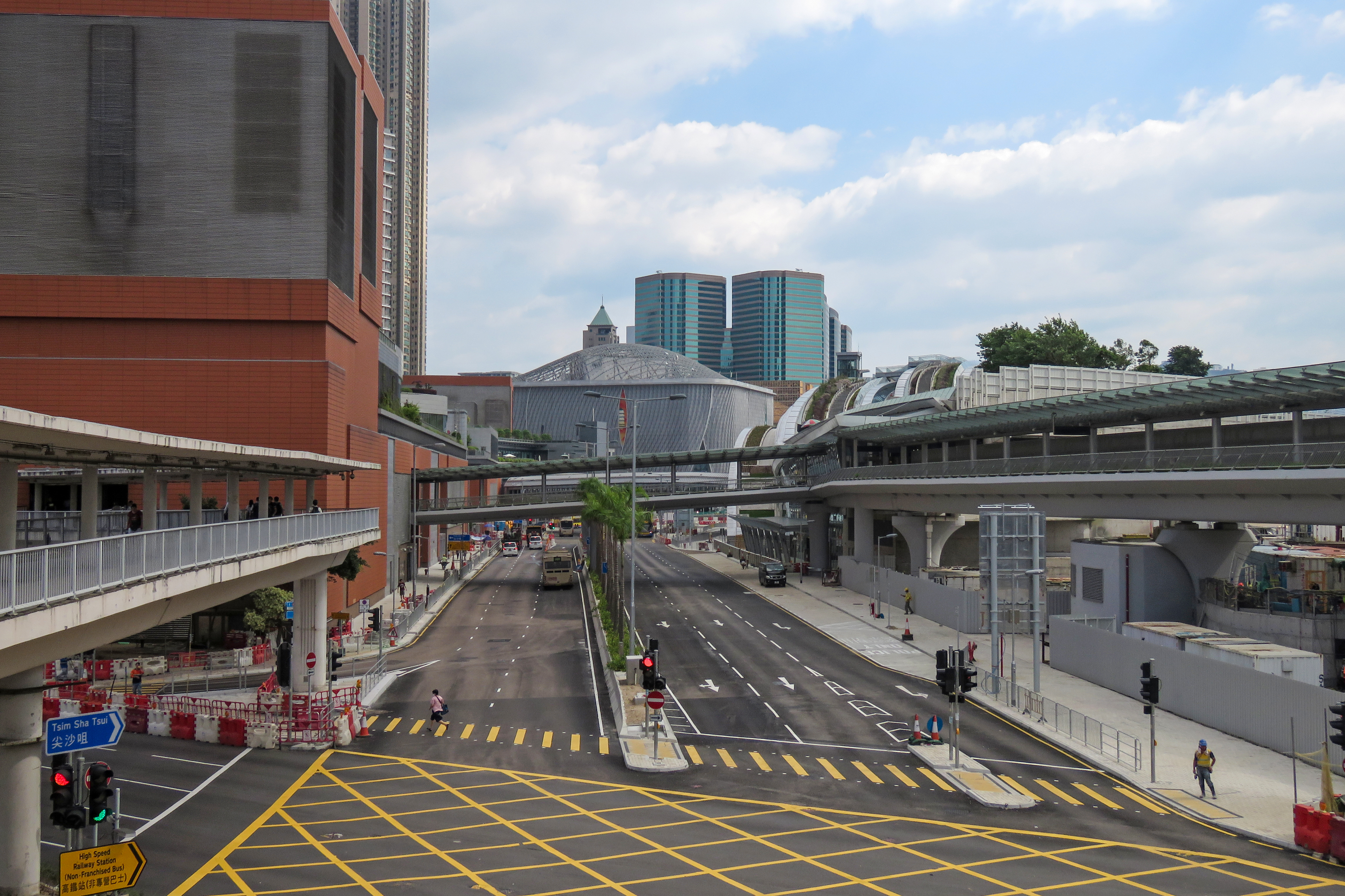 A disembarking bus stop is on the south of Wui Man Rd, connecting HK West Kowloon Station.